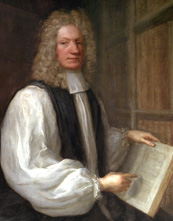 Portrait of St George Ashe (1657-1718)